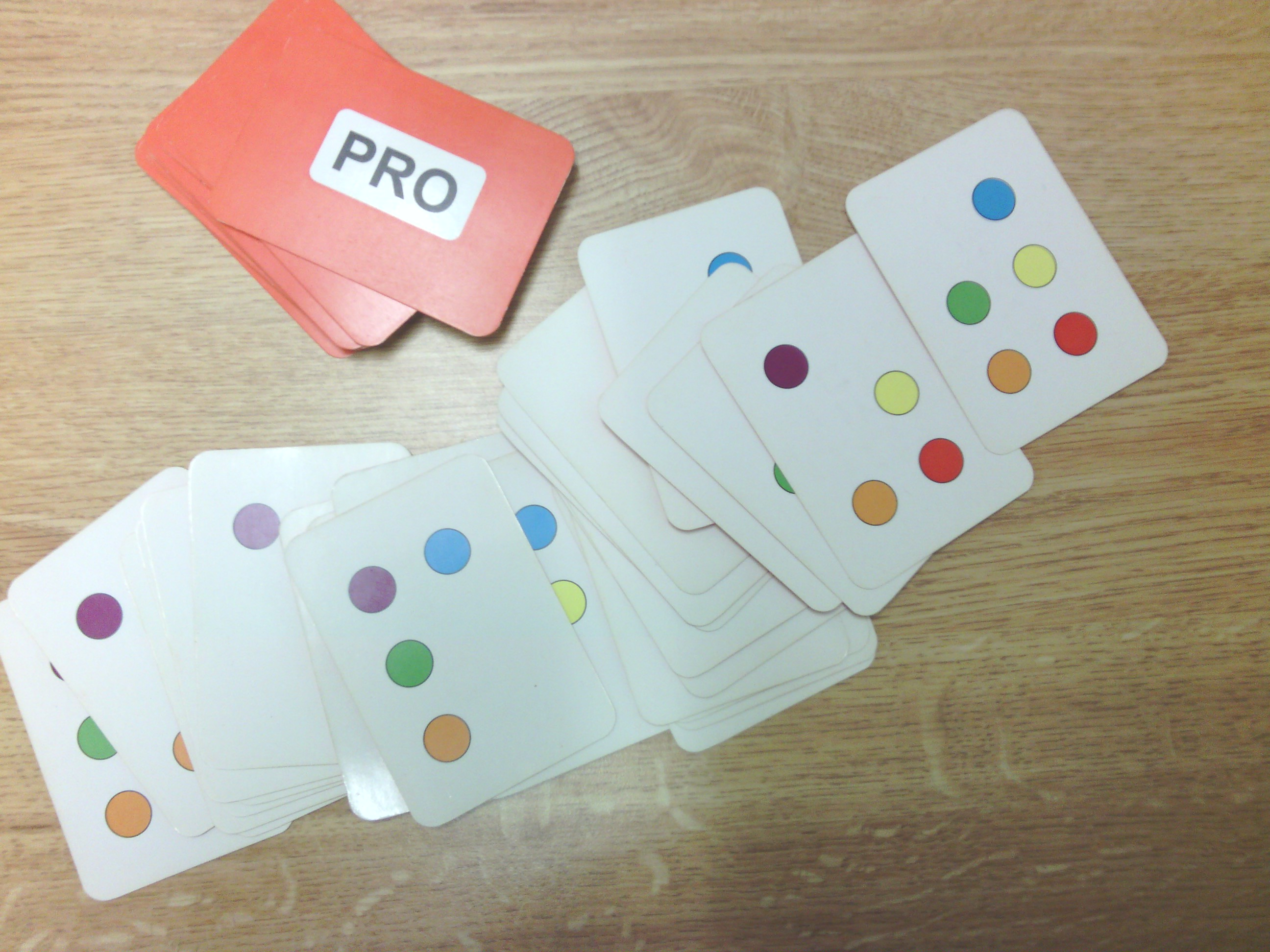 A deck of Projective Set cards (custom printed)